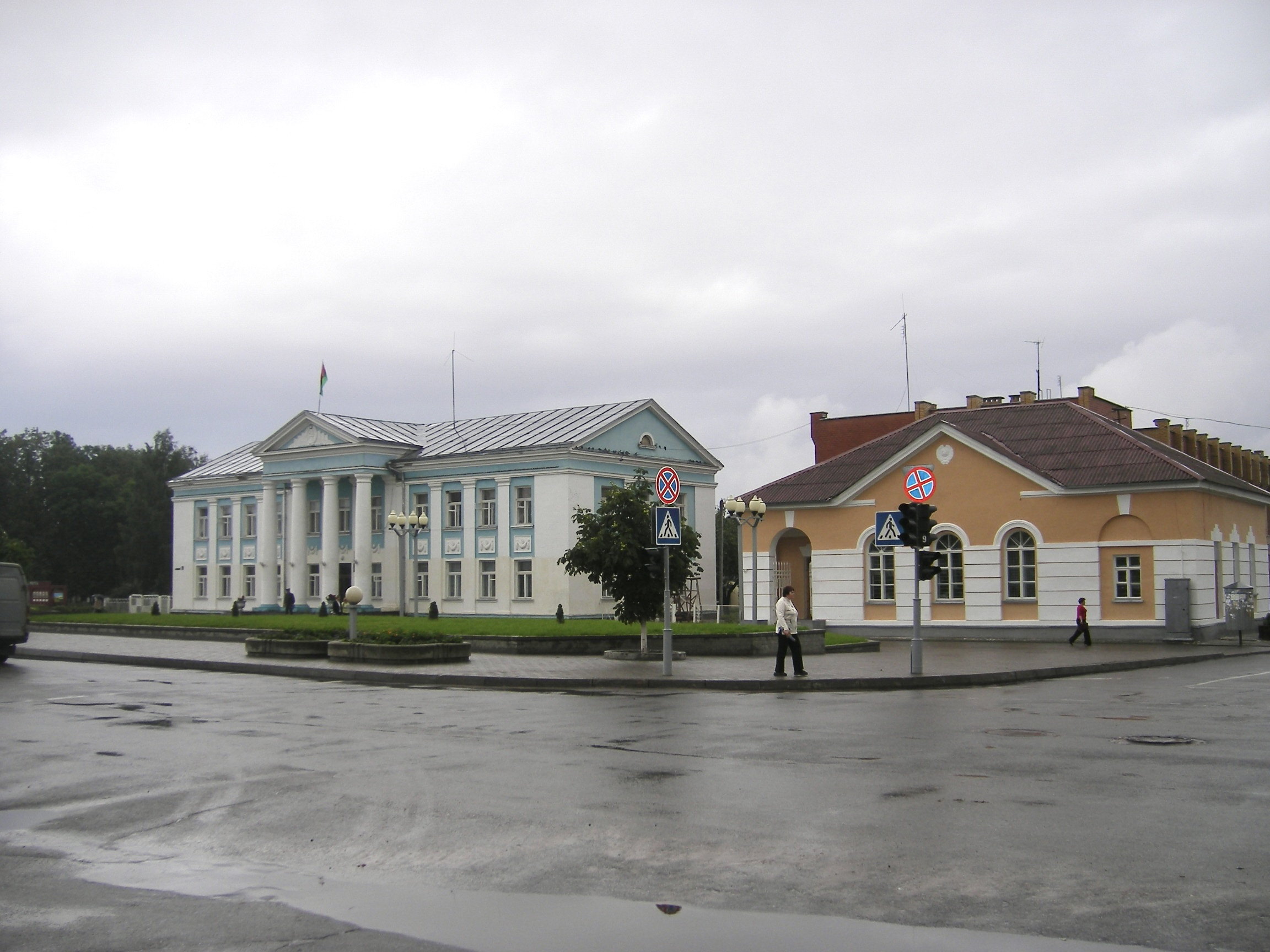 Svislach (Hrodna Oblast), Raion Administration Building